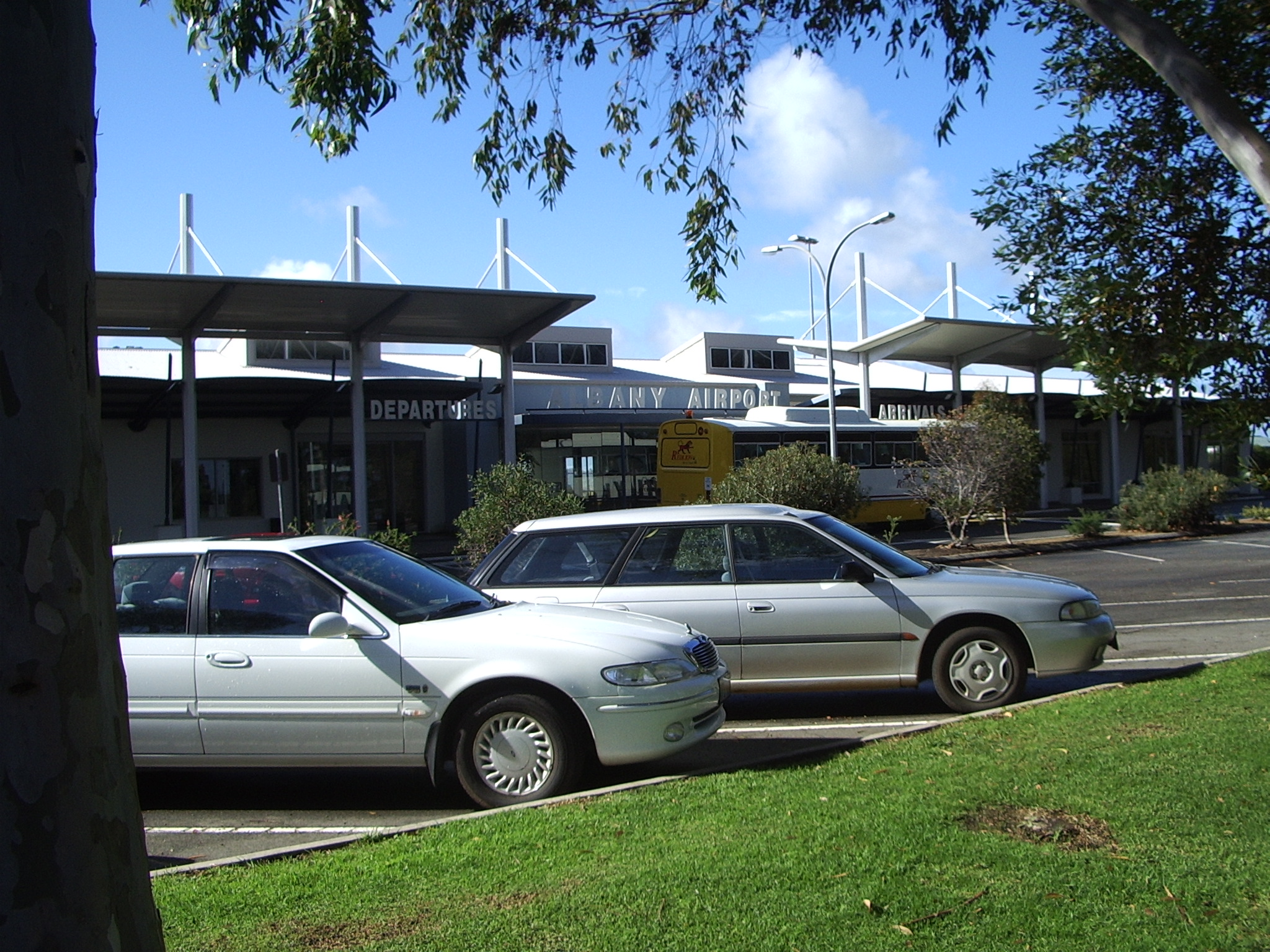 Photo taken May 26 2007 by Darren Hughes (myself) I release this photo into the public domain for anyone to use